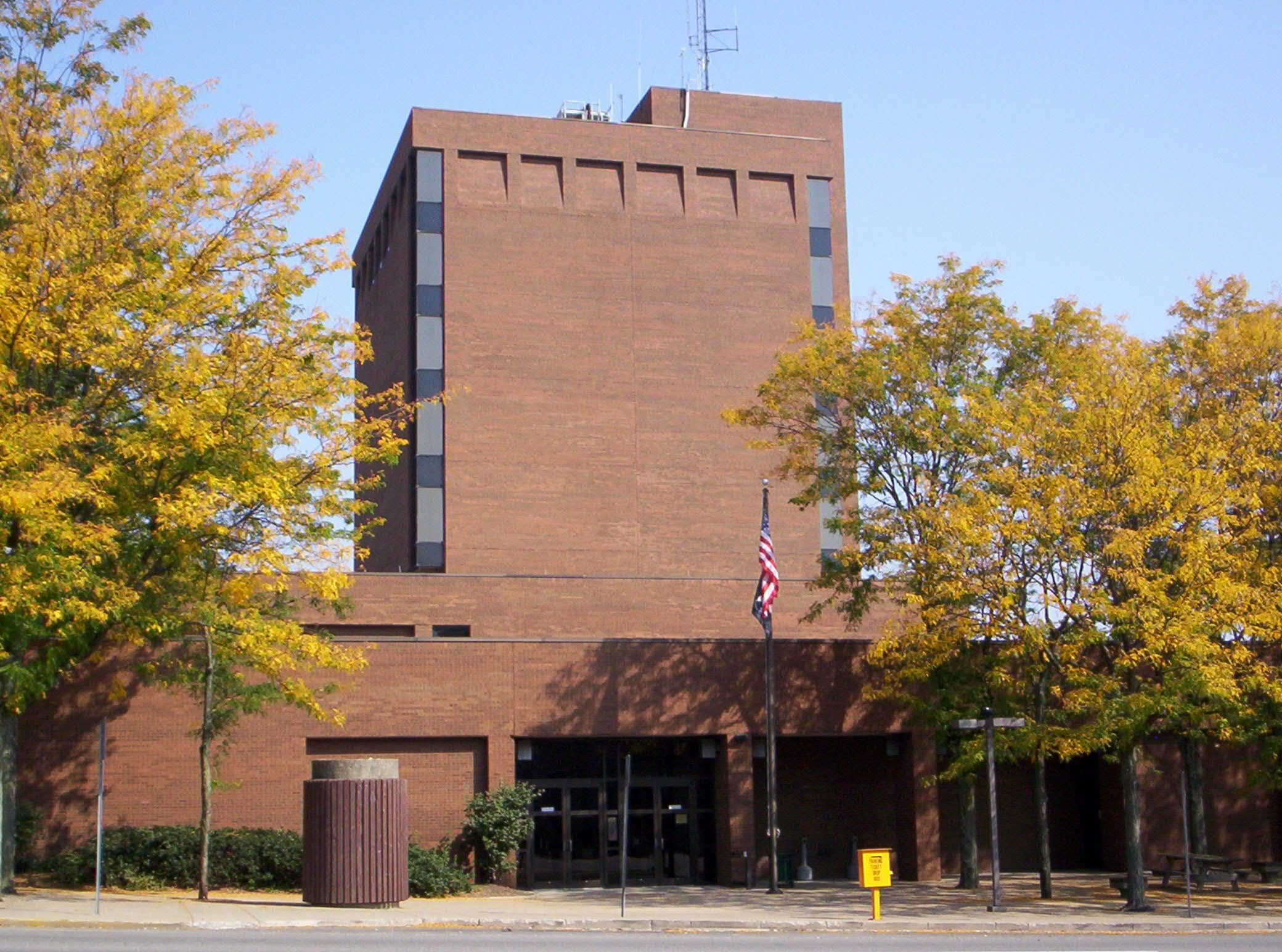 A view of the Mansfield Municipal Building in downtown Mansfield, Ohio as viewed from the south.